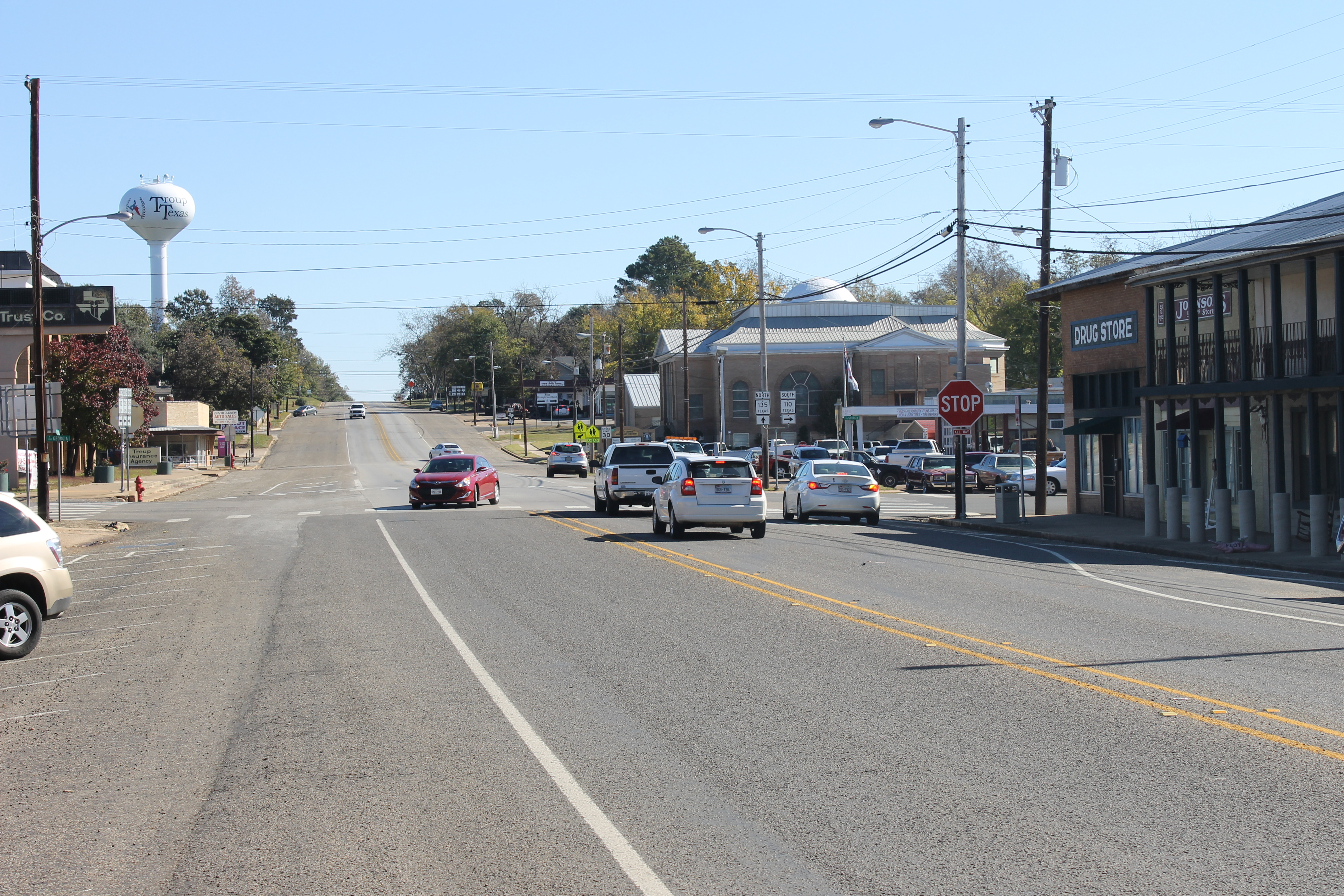 Glimpse of downtown Troup, TX